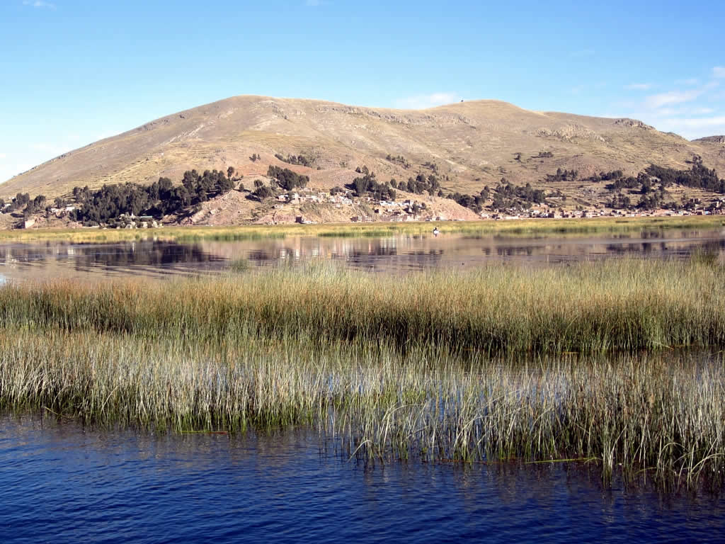 Reeds growing in Lake Titicaca near Puno, Peru.